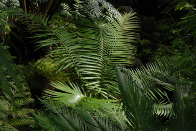 Ceratozamia Mexicana new leaves - in Liberec Botanical Garden - Czech Republic